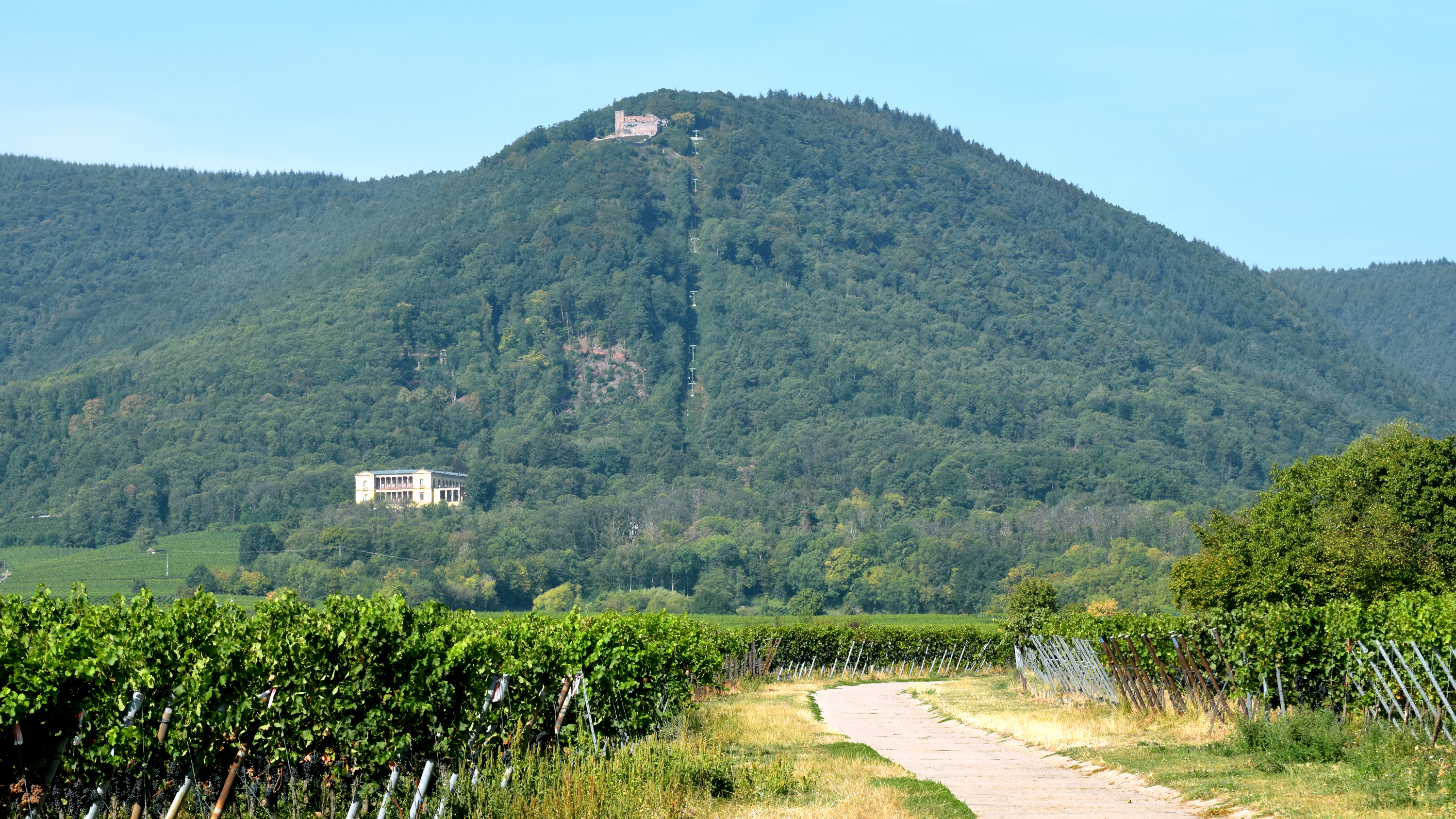 Blättersberg